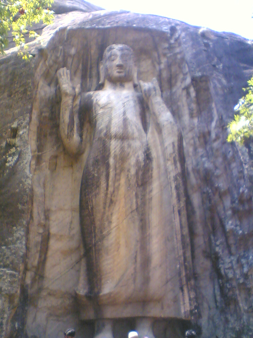 reswehera budda statue